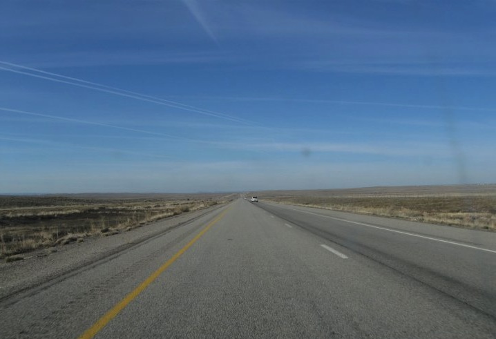 Interstate Highway 70 in eastern Utah desert, United States.